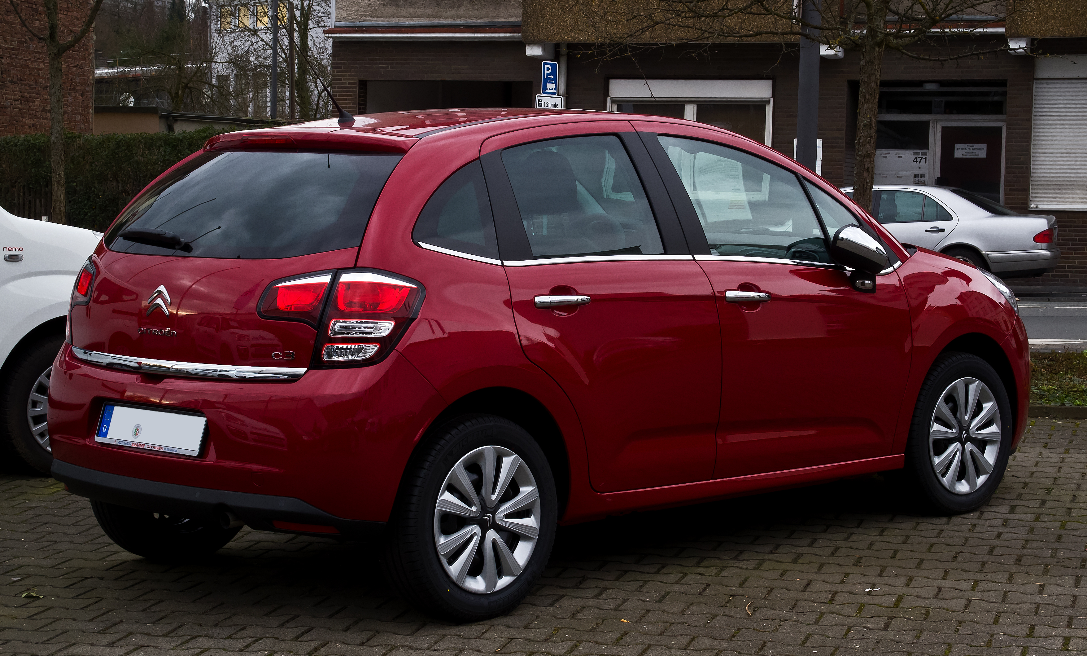 Citroën C3 VTi 82 Selection (II, Facelift)